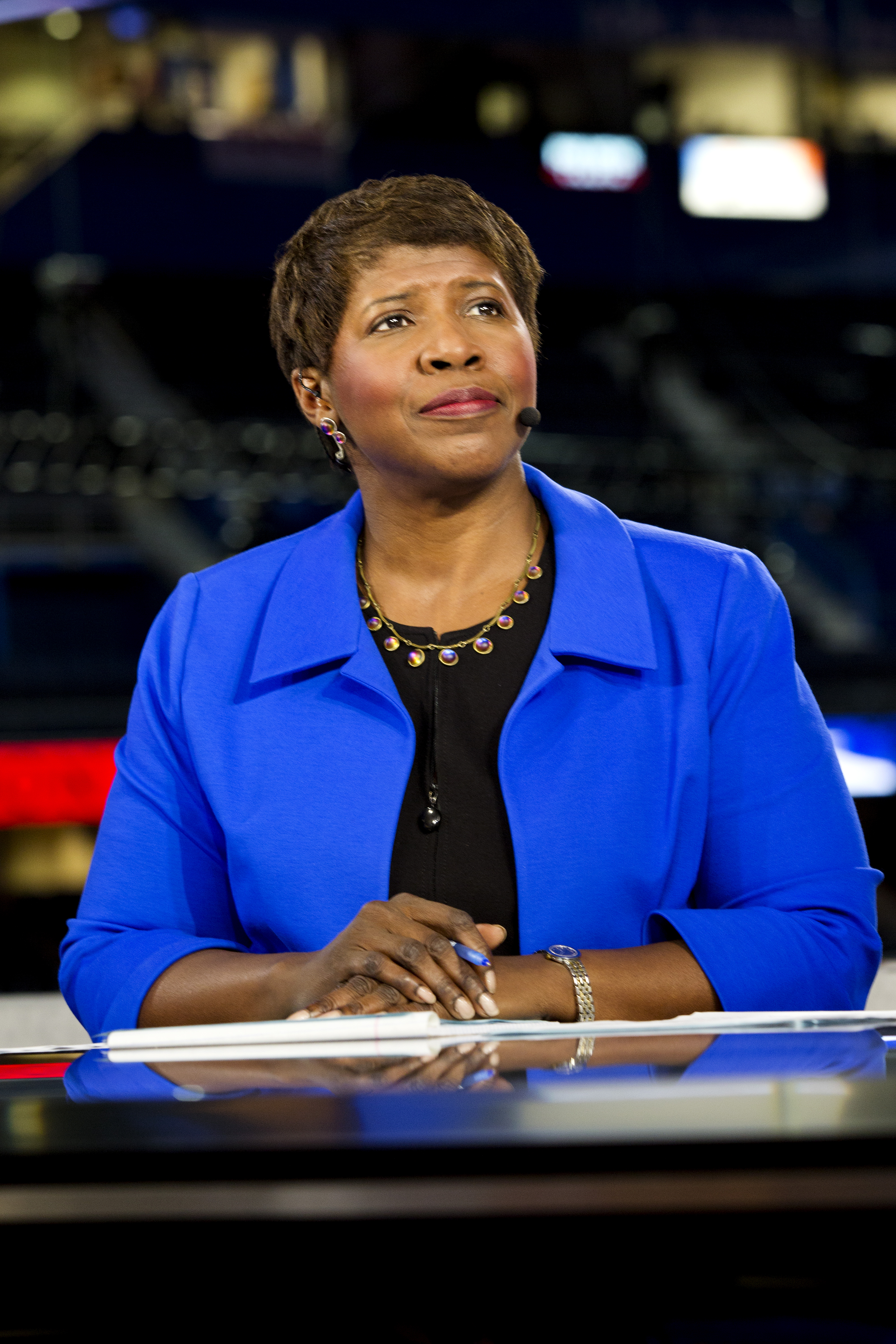 Behind the scenes of PBS NewsHour with Gwen Ifill and Judy Woodruff